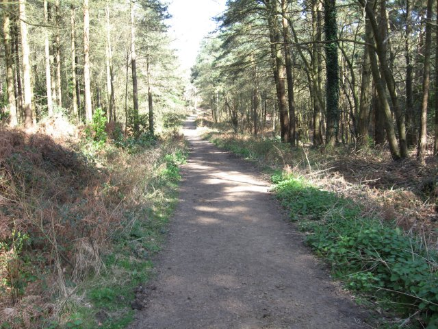 Stoney Down Plantation A rather delightful walk, many tracks, easy to get lost. In a wet winter, there can be a lot of mud around